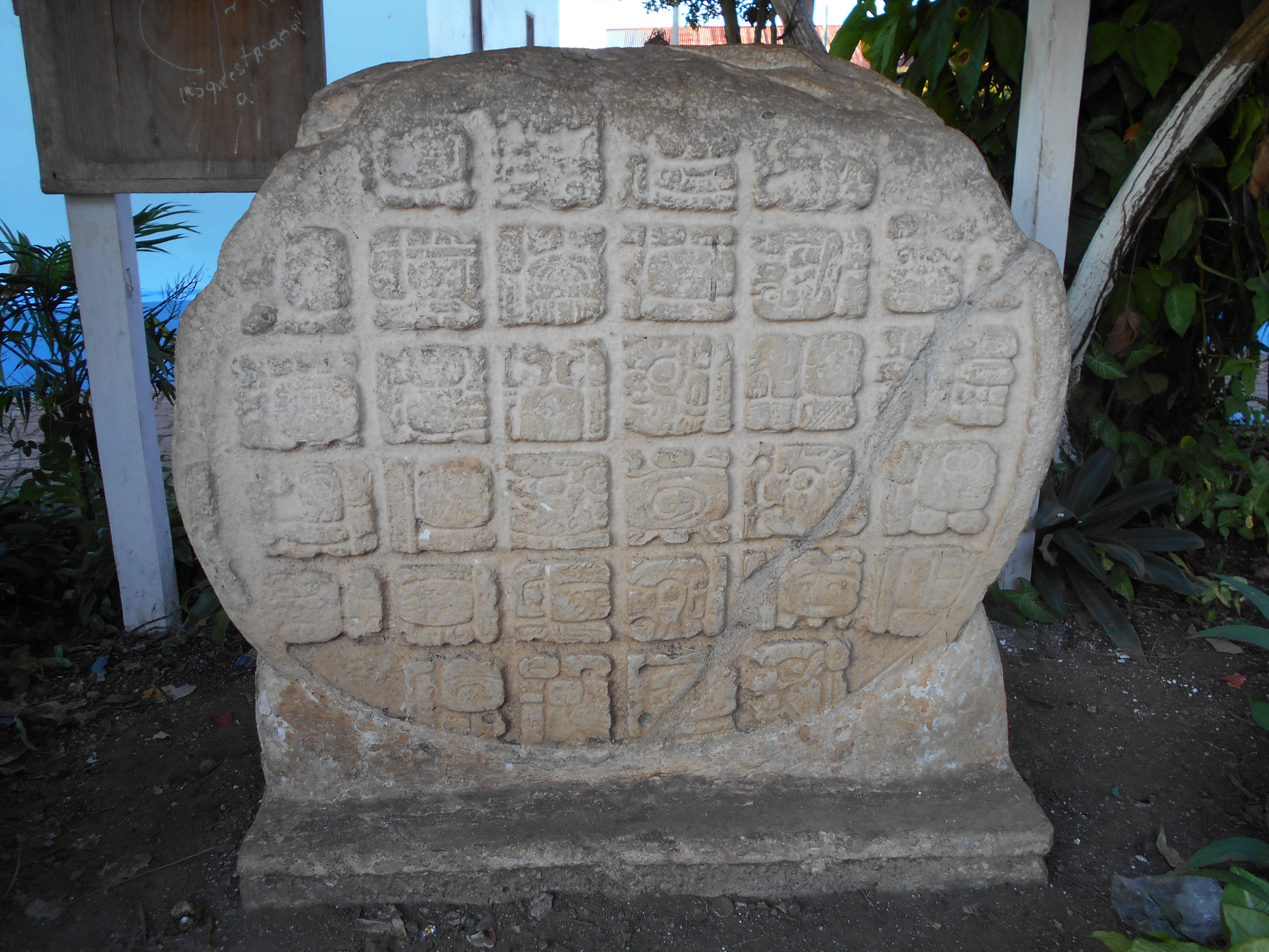 Ixlu Altar 1, now in the central park of Flores, Petén, Guatemala.